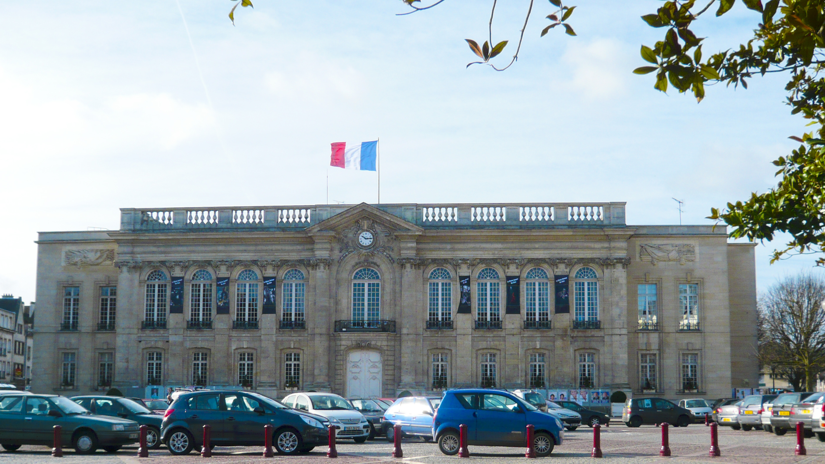 Town hall of Beauvais, France